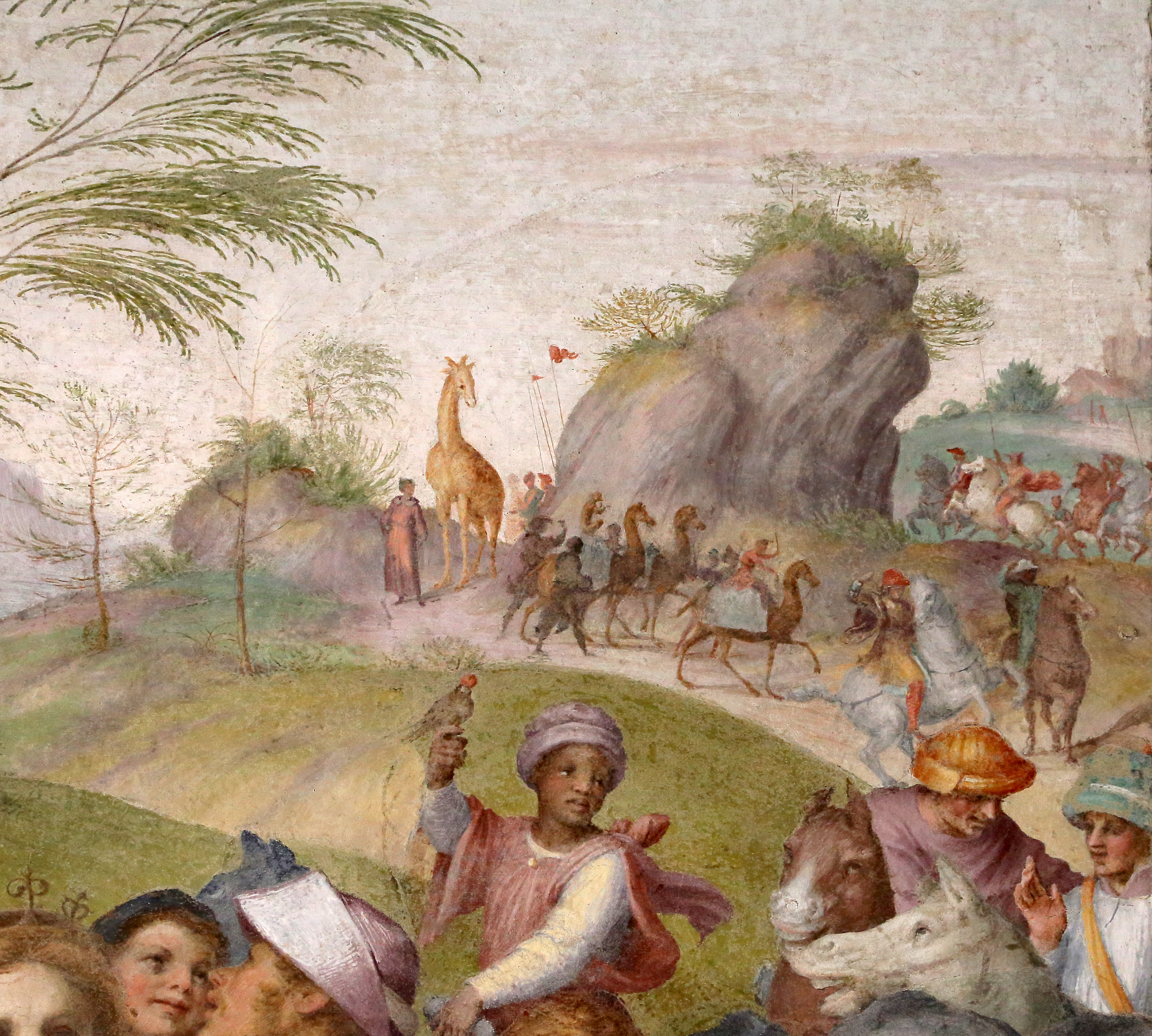 Journey of the Three Kings by Andrea del Sarto